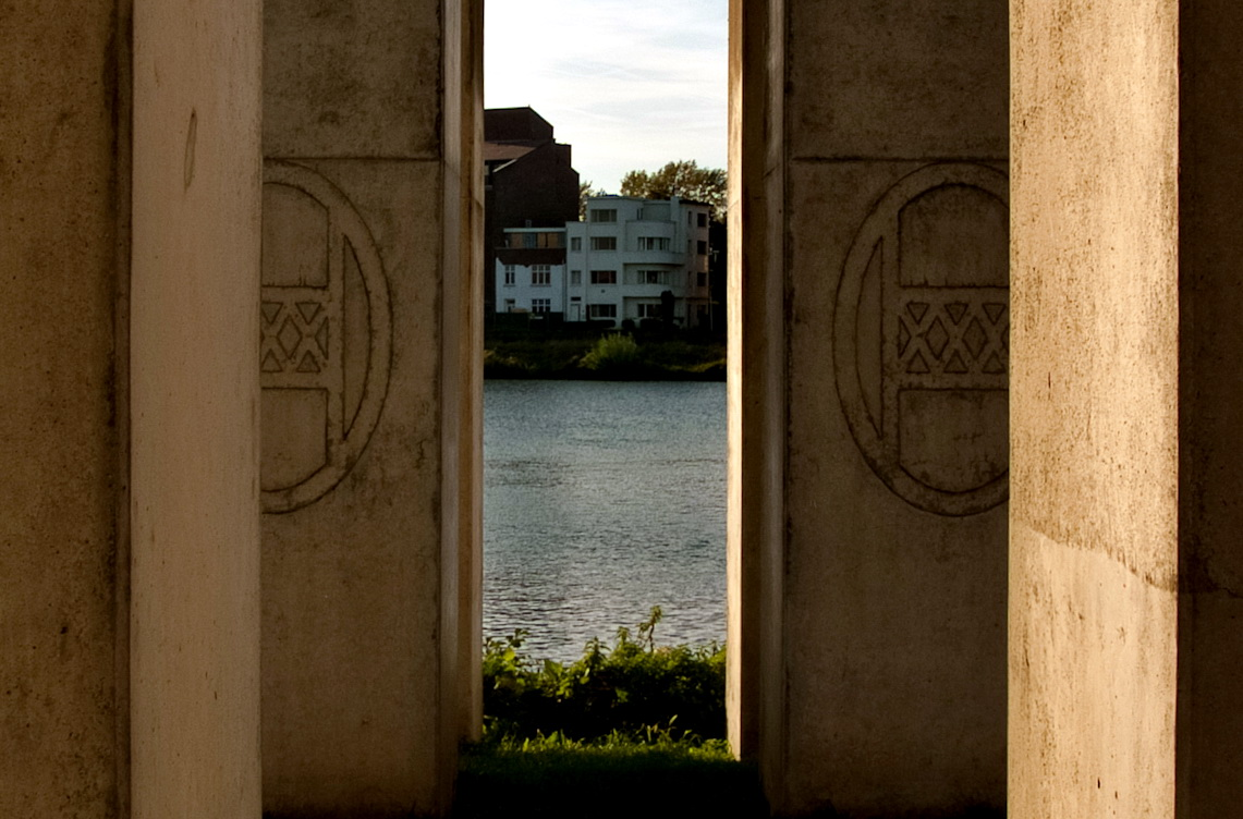 Maastricht, the Netherlands. View over the river Meuse through the Old Hickory monument, marking the spot where the 117th regiment of the 30th US Infantry Division ("Old Hickory") crossed the river on 14th September, 1944, thus liberating Maastricht after 4 years of German occupation. Detail of the original photograph uploaded by Sjvdp on 14th October, 2011.